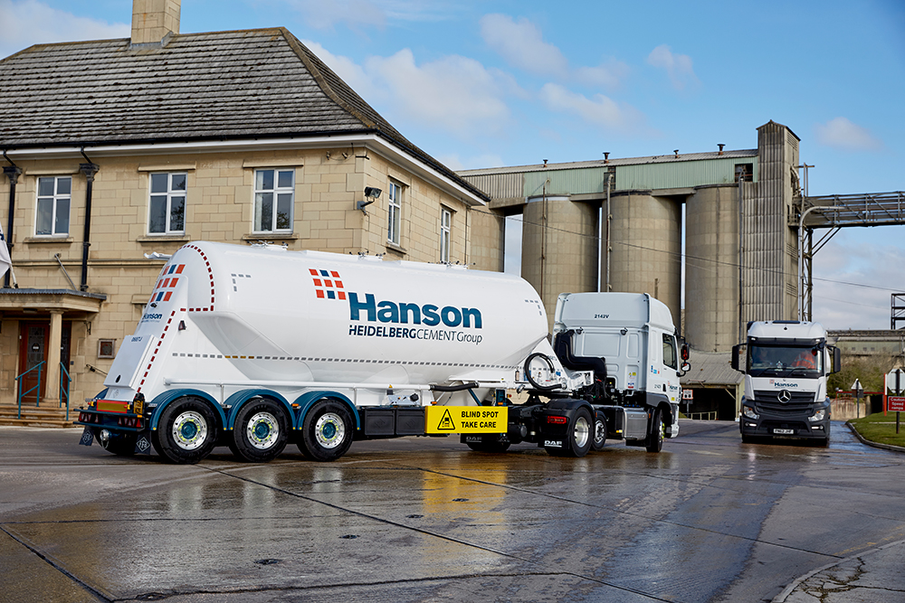 In August 1928 Ketton Portland Cement Company was incorporated and construction of a works began.